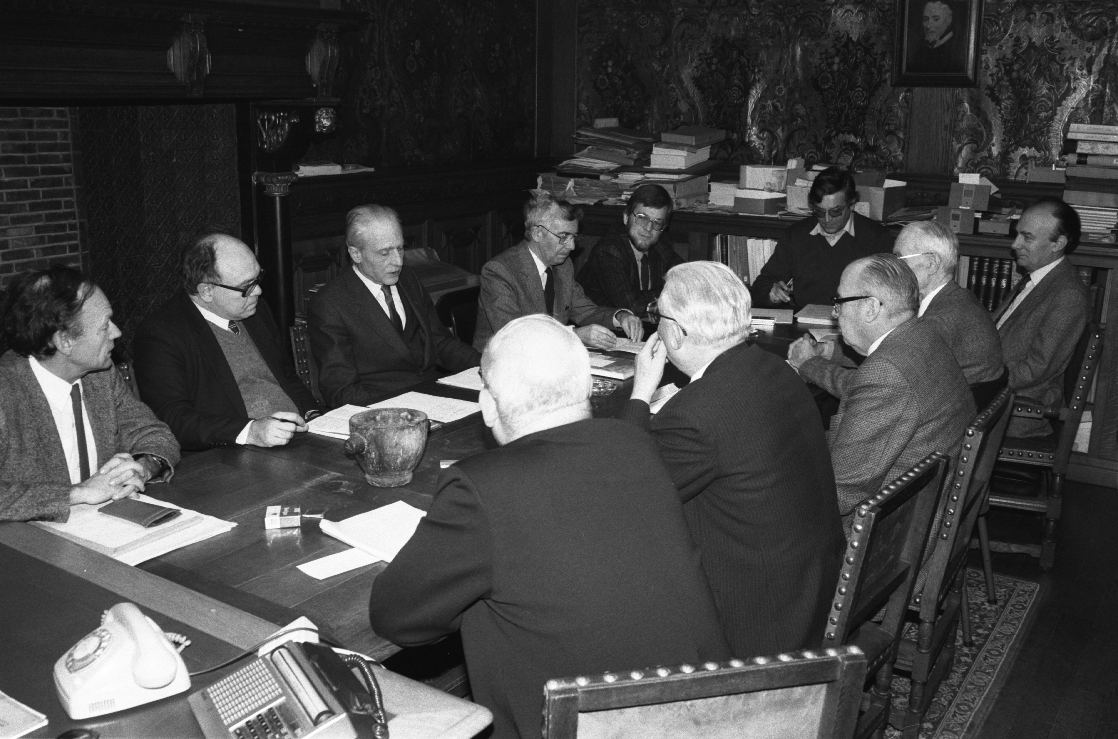 Board meeting of the Bruges Historical Society Genootschap voor Geschiedenis (formerly Société d'Emulation) in 1987